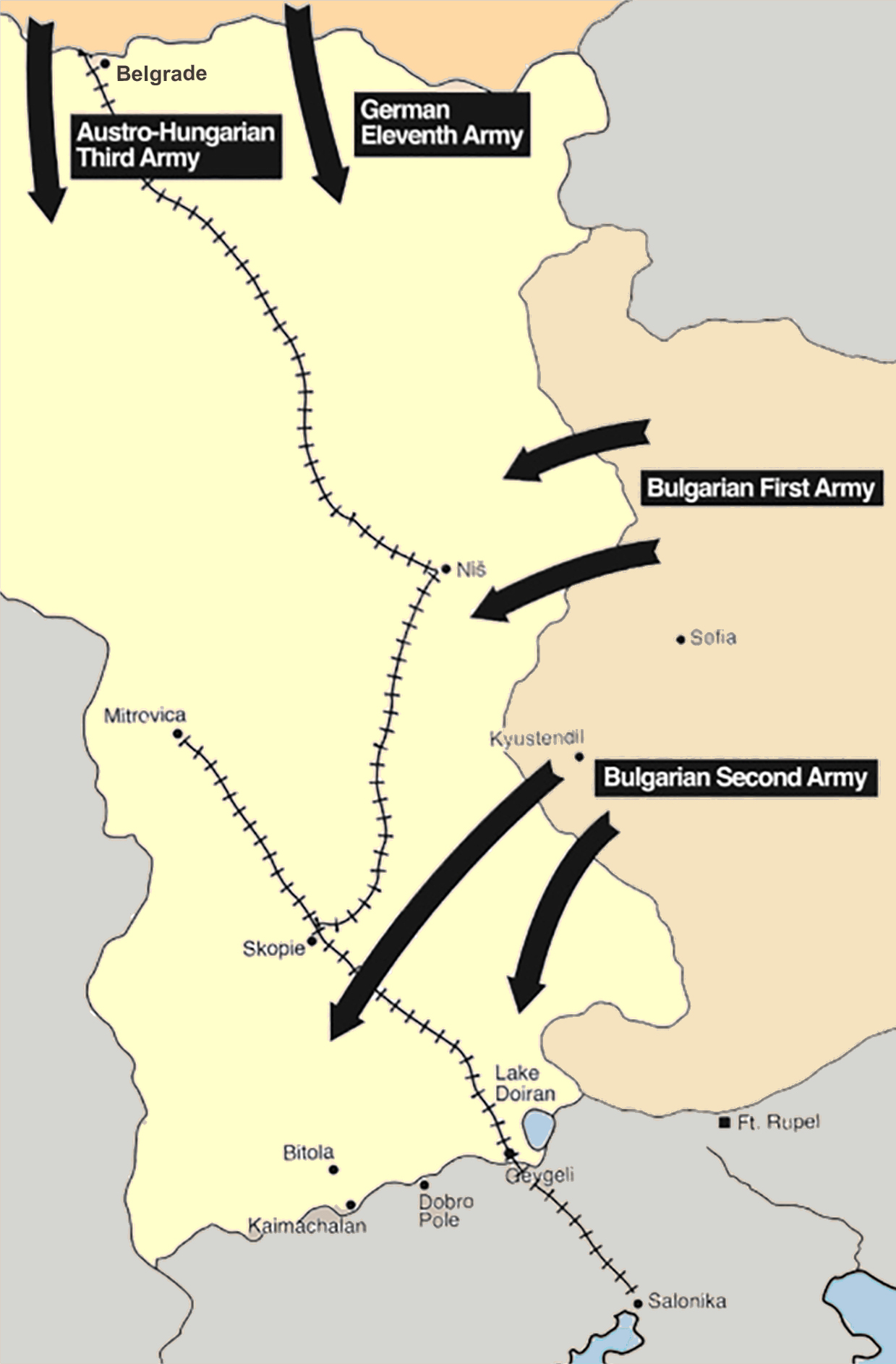 created based on a black and white map